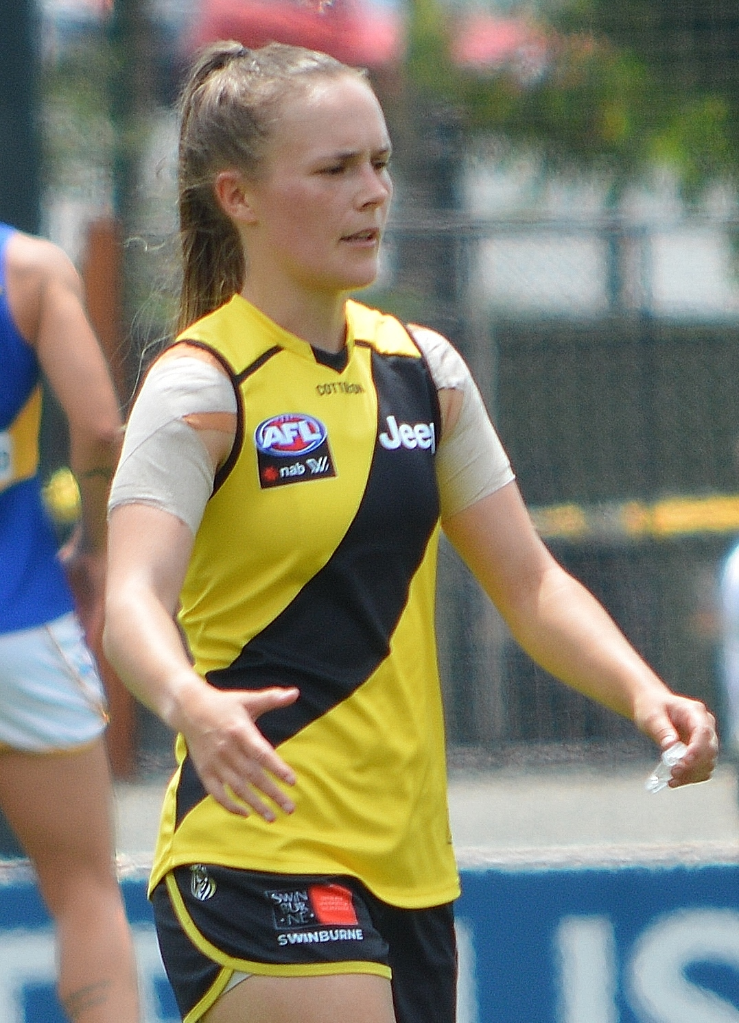 Holly Whitford with Richmond during a pre-season AFL Women's match against West Coast at Punt Road Oval in January 2020.